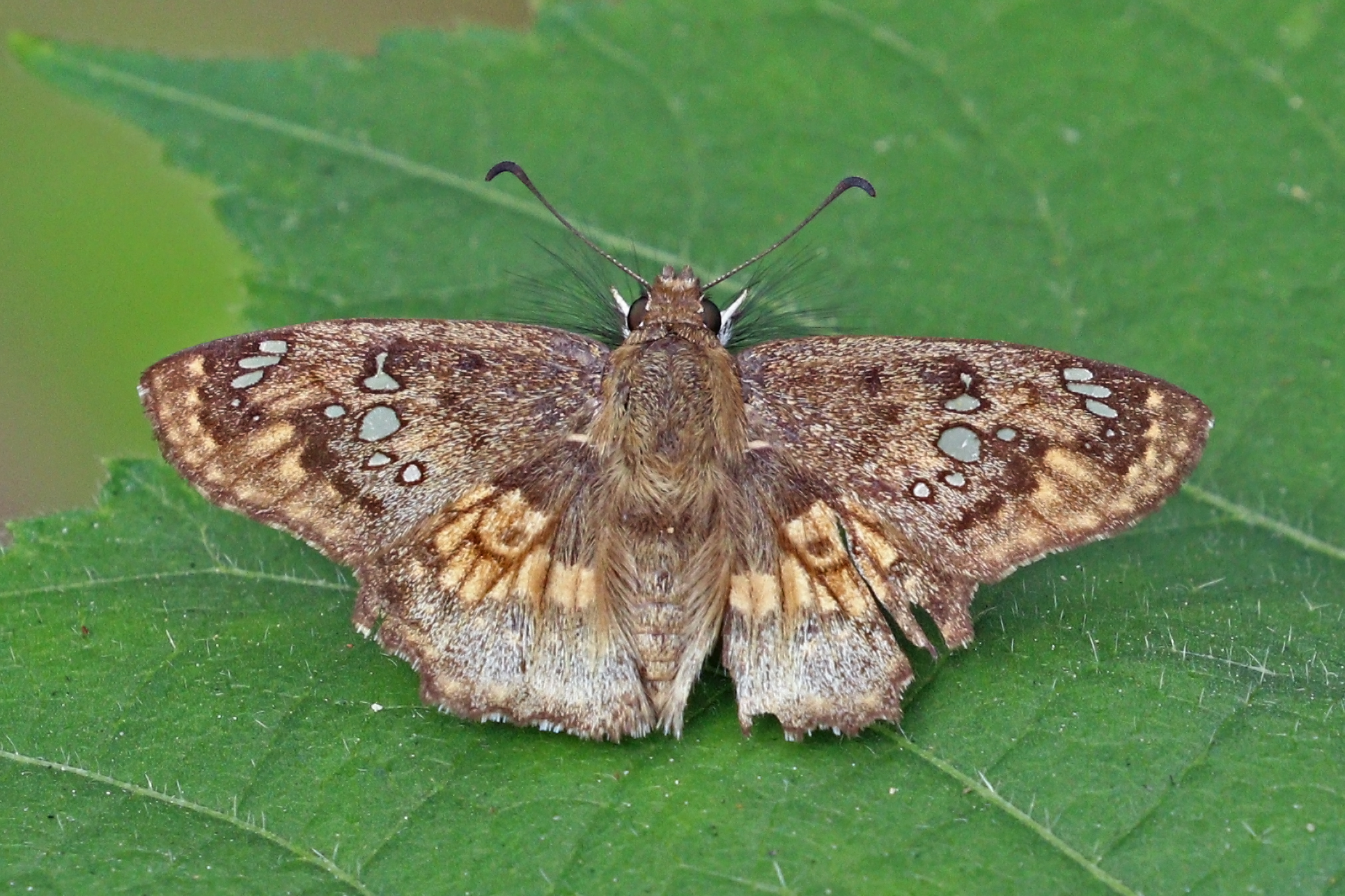 Golden angle (Caprona ransonnetii potifera), Chinnar Wildlife Sanctuary, Kerala, India